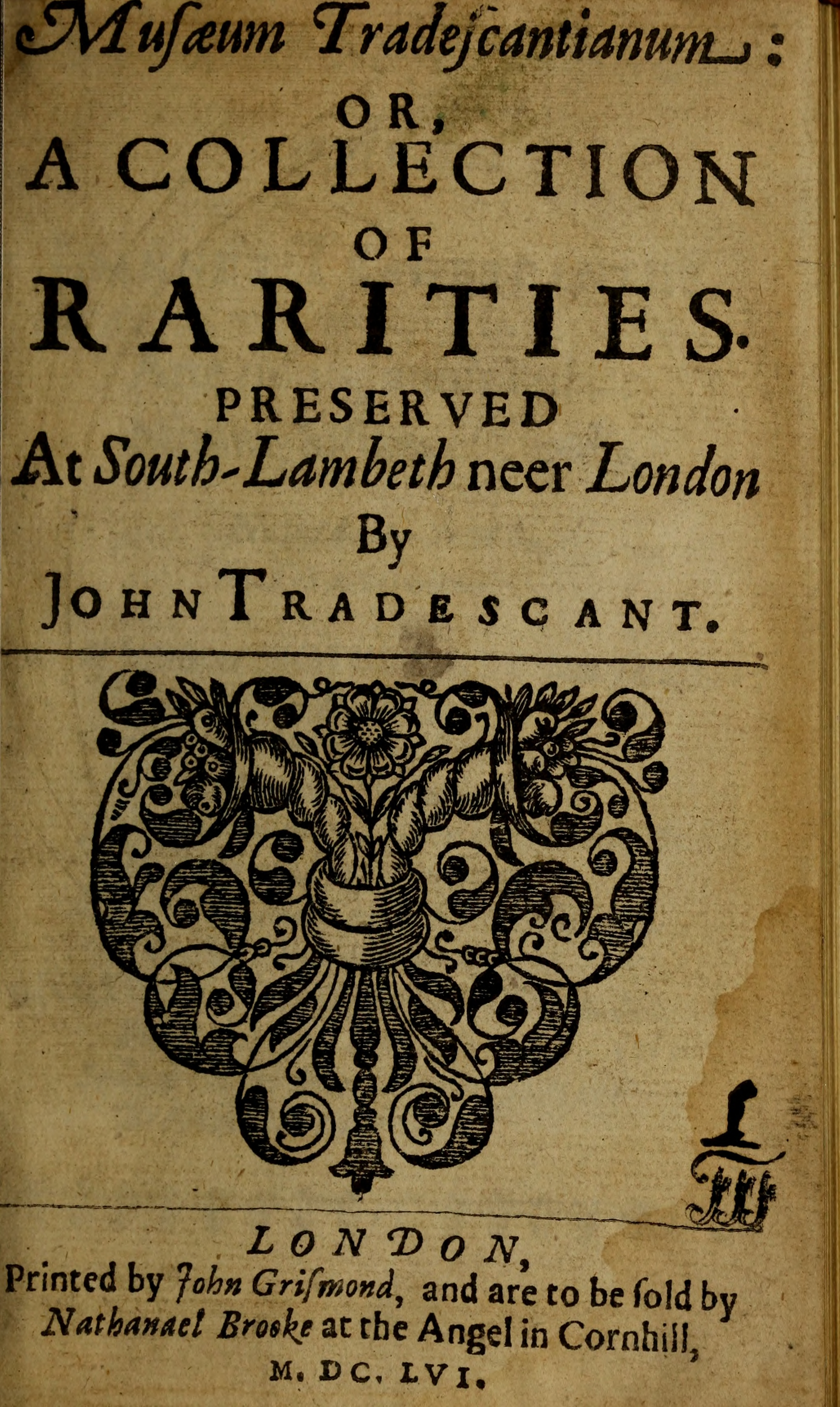 John Tradescant the Younger: Musæum Tradescantianum; or, A Collection of Rarities Preserved at South-Lambeth neer London, John Grismond, London 1656 (title page)